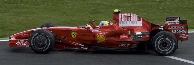 Felipe Massa driving for Scuderia Ferrari at the 2008 French Grand Prix.